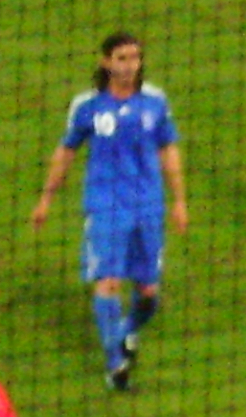 Ioannis Amanatidis, Greece - Moldova